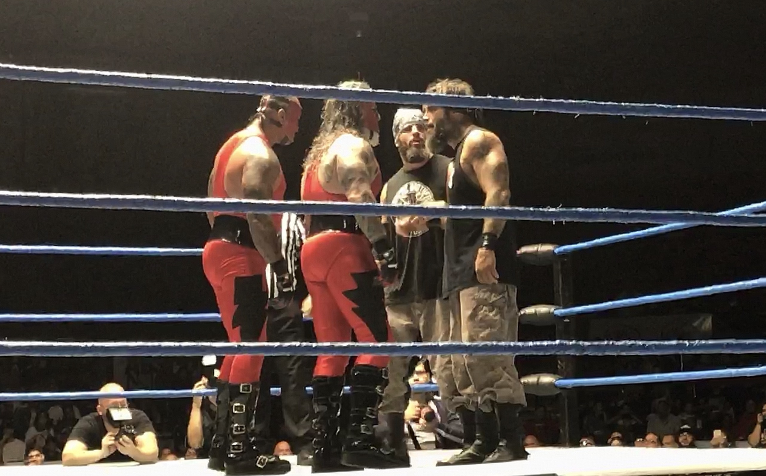 Profesional wrestling tag teams Thunder and Lightning (left) and The Briscoe Brothers face each other at the World Wrestling Council's Aniversario 2018 event.